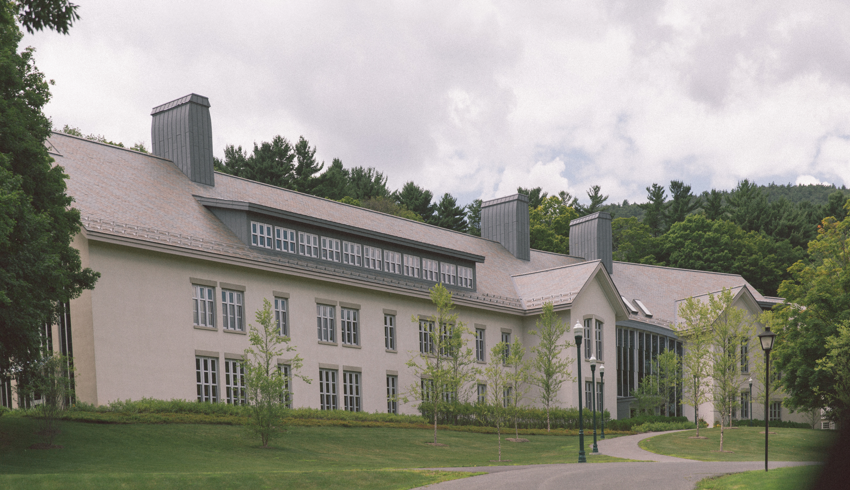 Berkshire School, 245 North Undermountain Road, Sheffield, MA 01257, USA - August 2014